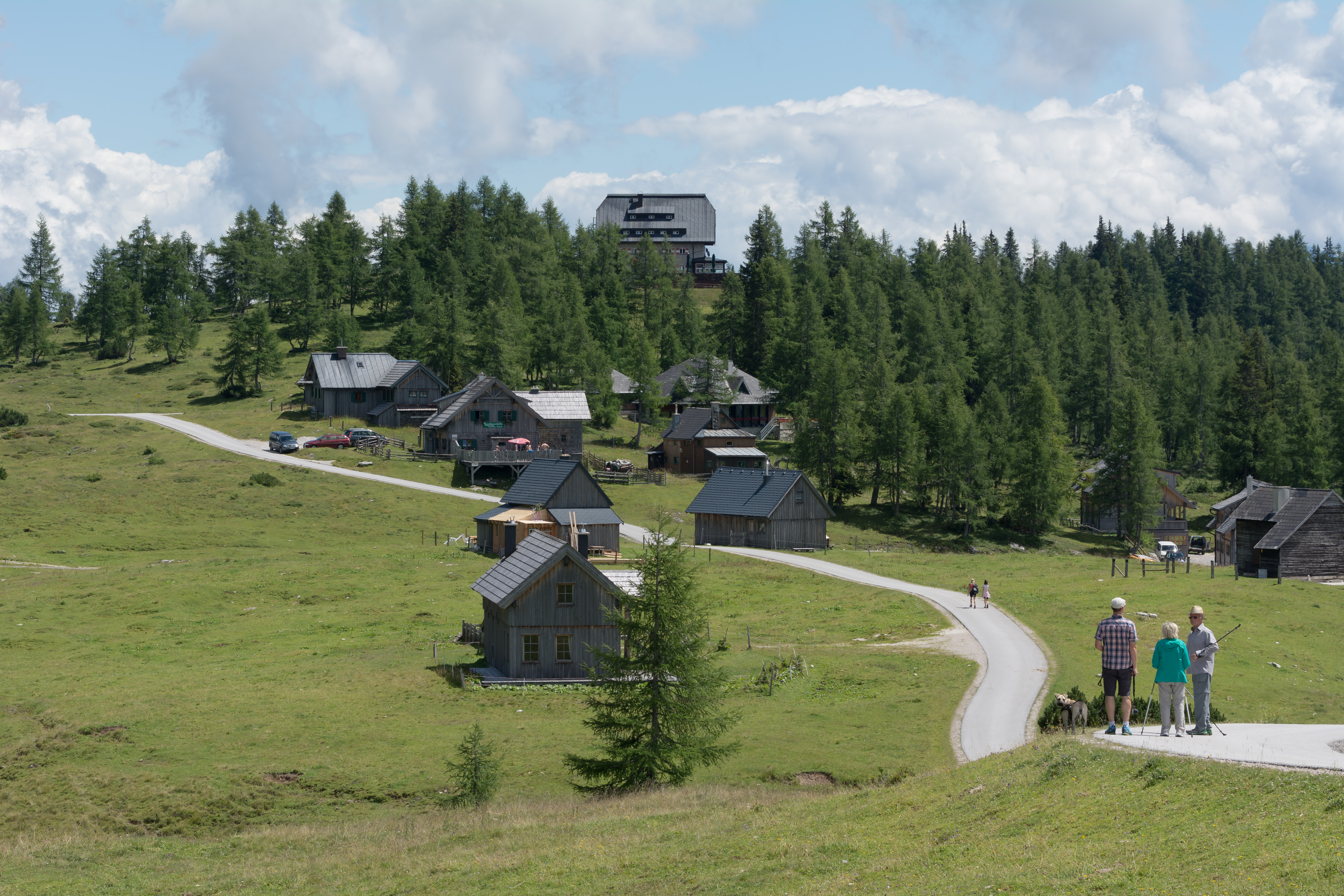 The alpine hut Linzer Tauplitz-Haus at the alpine pasture Tauplitzalm in Styria / Austria was erected in 1953/54.